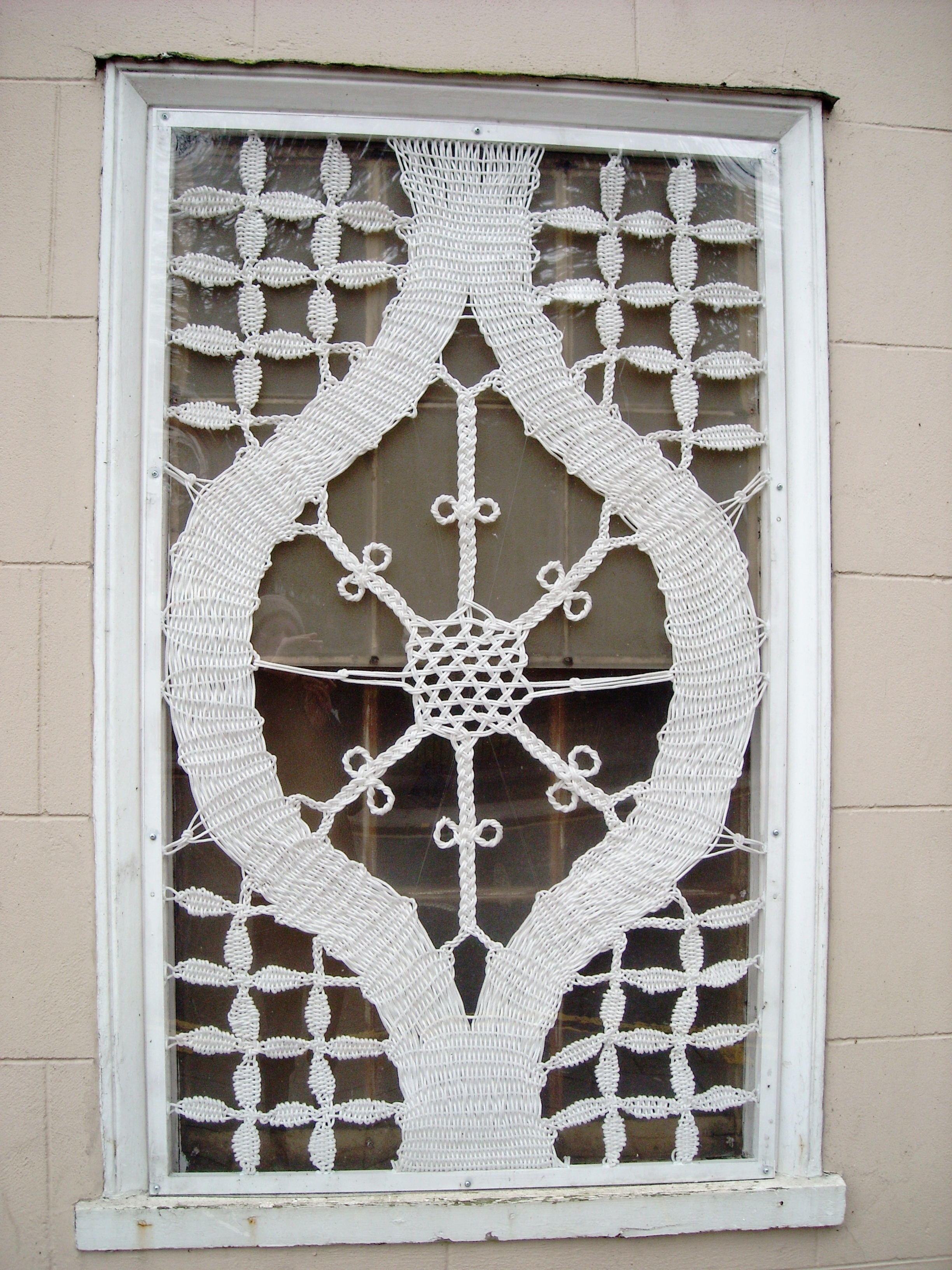 No 1 St Pauls Square, Bedford. The second ground floor window on the right of the front door. The unusual decoration seems to be made of knotted chord. It was created by artist Arabel Rosillo de Blas together with a Beford group the "Aragon Lacemakers" as commissioned public art to celebrate Bedford's history of lace-making.